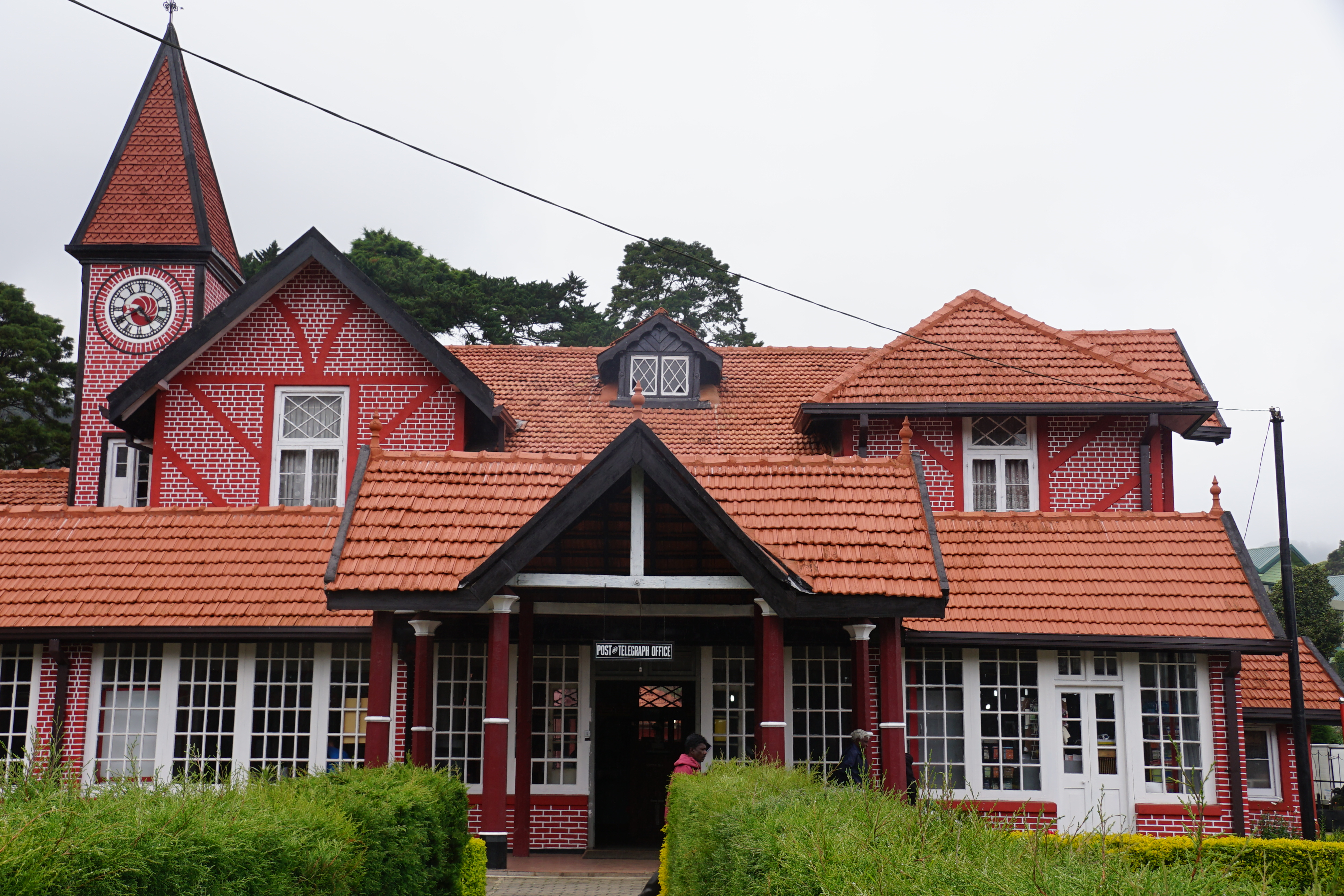 The exterior of the Nuwara Eliya Post Office, taken from the street